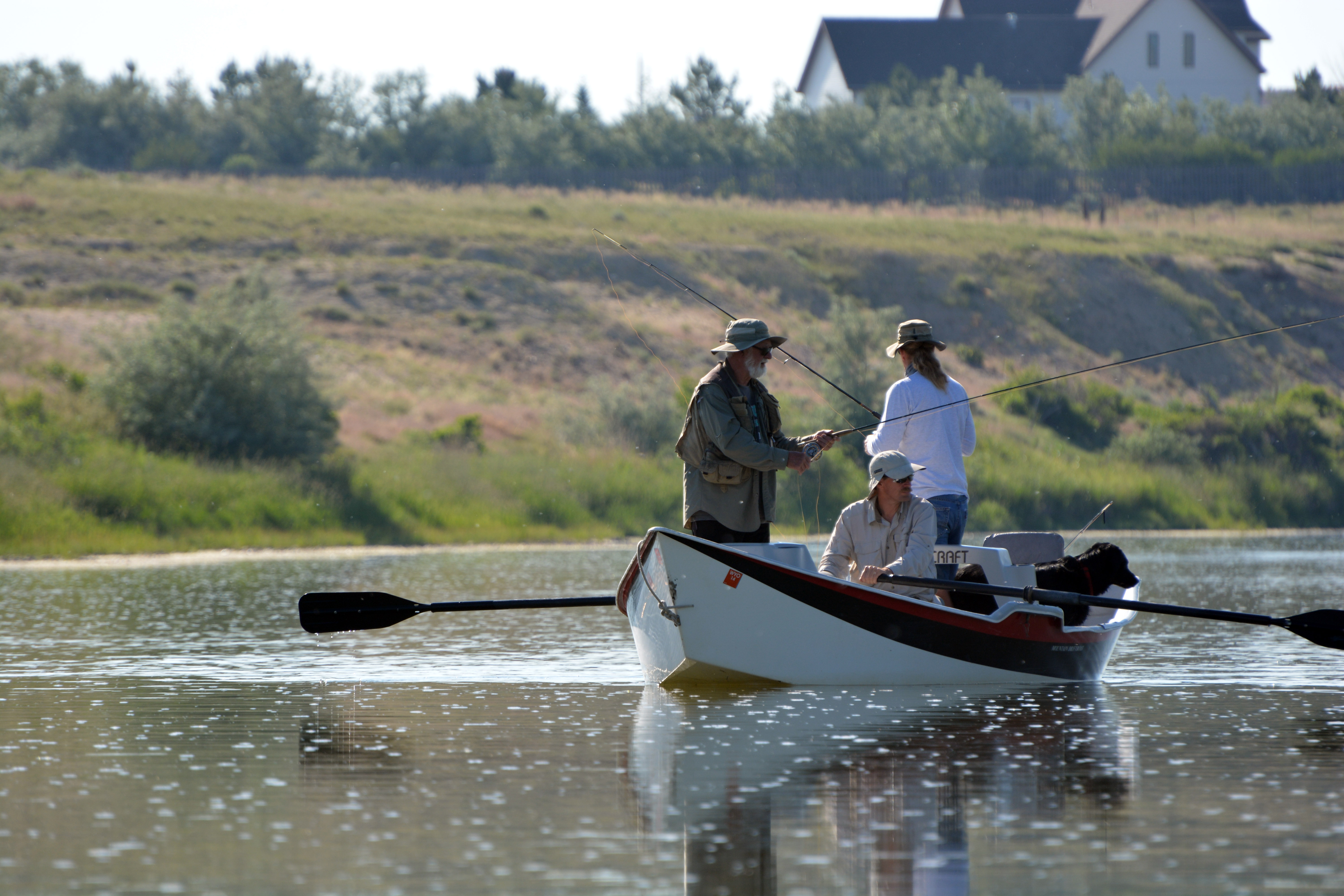 During the 1800’s the Oregon Trail, Mormon Trail, California Trail and the Pony Express Trail all converged along the North Platte River. Today, the North Platte River is considered a Blue Ribbon Trout Stream, with approximately 4,000 trout per mile. Anglers come from across the globe to try their hand at fishing along Trappers Route, near Casper. Photo by Brady Owen, BLM